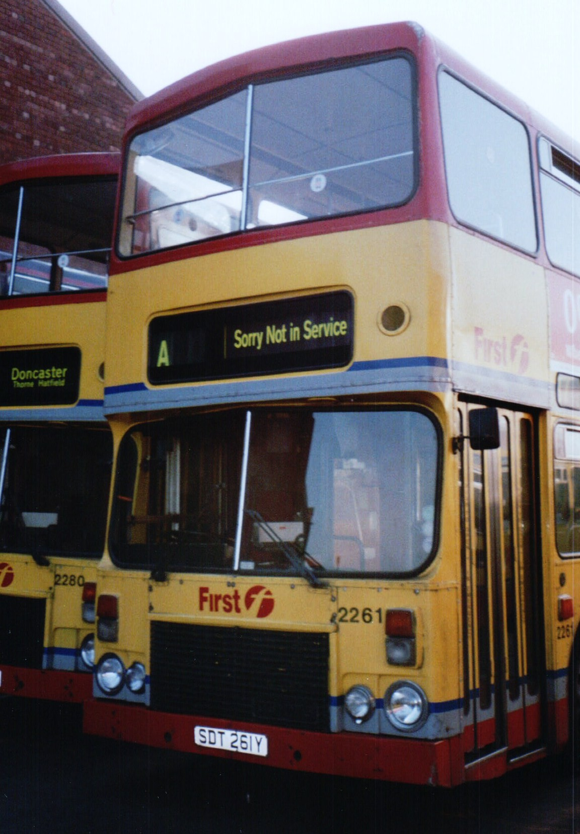 First Mainline bus 2261 (reg. SDT 261Y), a 1982 Dennis Dominator double-decker with Alexander RH bodywork. Delivered new to the bus operating arm of the South Yorkshire Passenger Transport Executive, this colourful livery and First f identity was one stage in the complex post-1986 deregulation/privatisation transitional era, from the beige/red identity of the publicly owned PTE operator to the 'Barbie' corporate style of the First Group plc subsidiary First South Yorkshire.